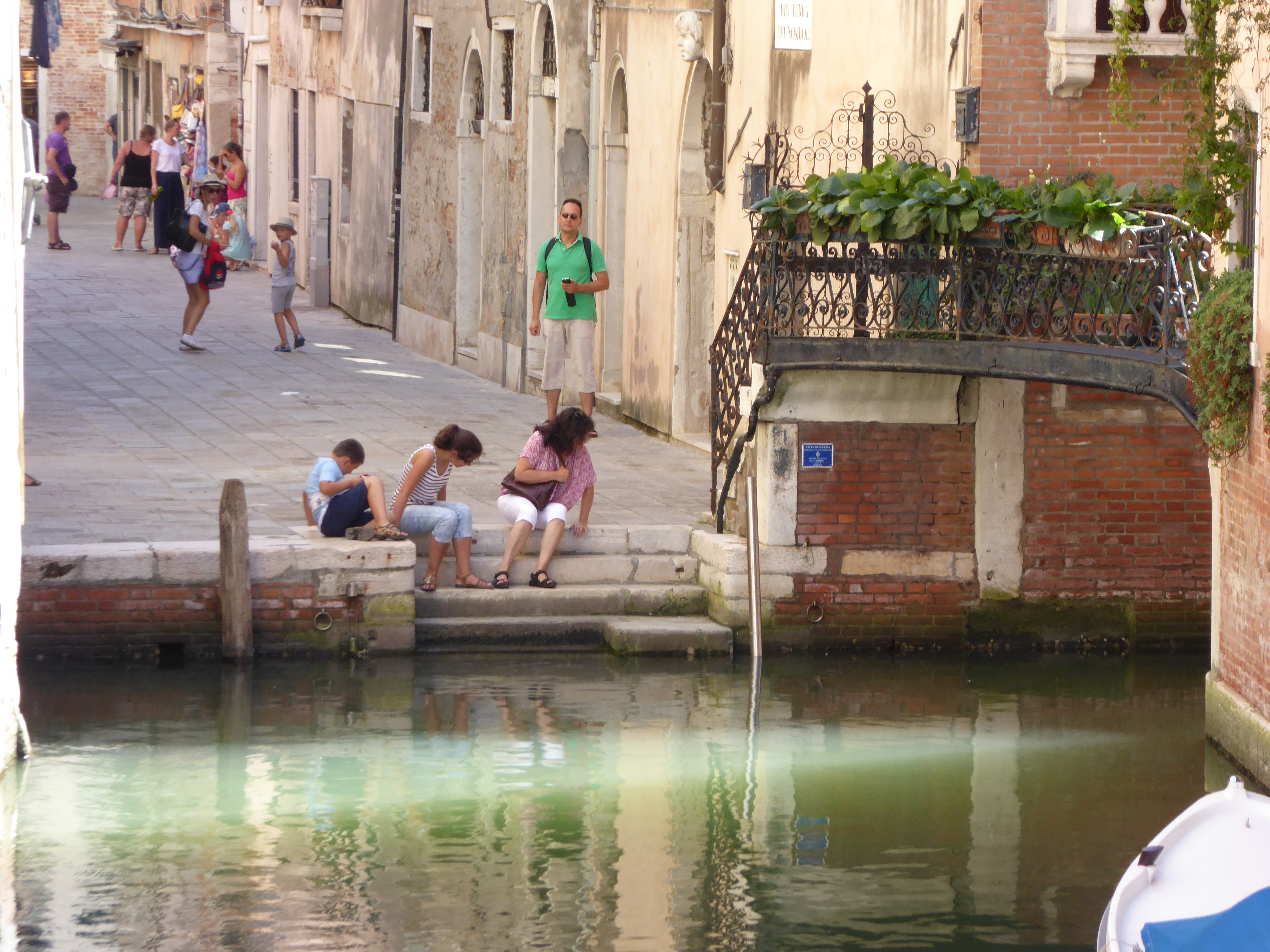 bridges of venice